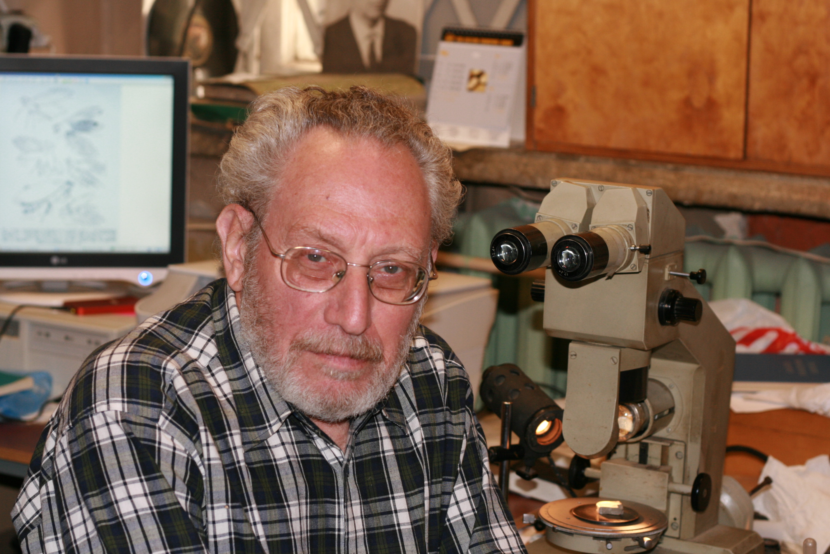 Photo by Roman Rakitov